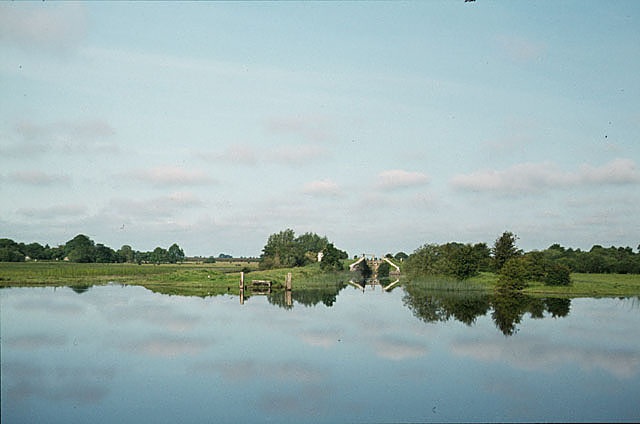 Grand Canal Ballinasloe branch The Grand Canal extended across the River Shannon with a branch to the important town of Ballinasloe. This is the entrance from the River Shannon but the branch is now derelict.